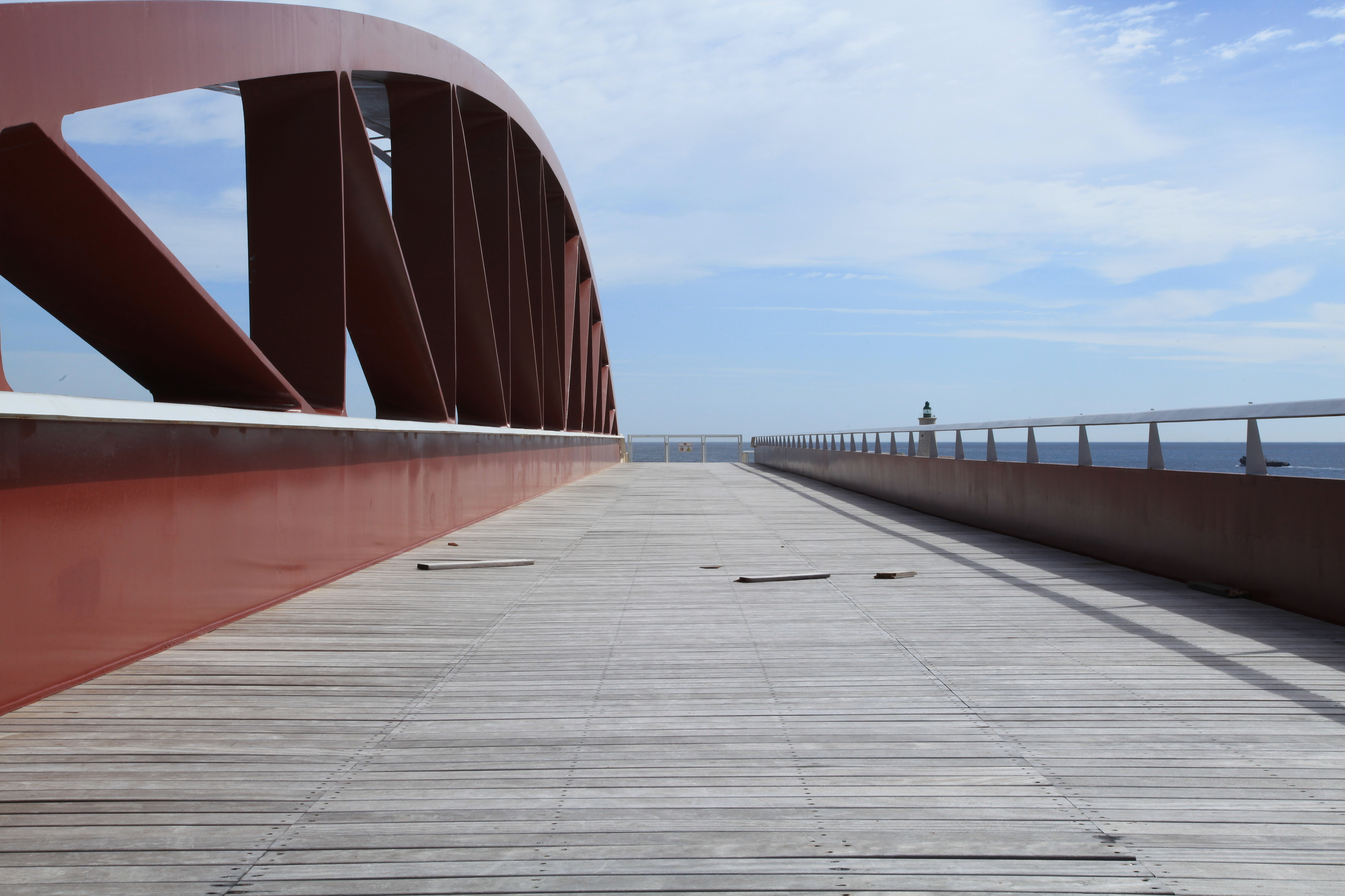 St. Elmo Bridge, Triq il-Lanċa in Valletta, Malta